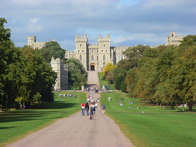 Windsor Castle and the Long Walk Looking up to the South Wing with the Edward III Tower to the left. Below is Turret House at the east end of Park Street.